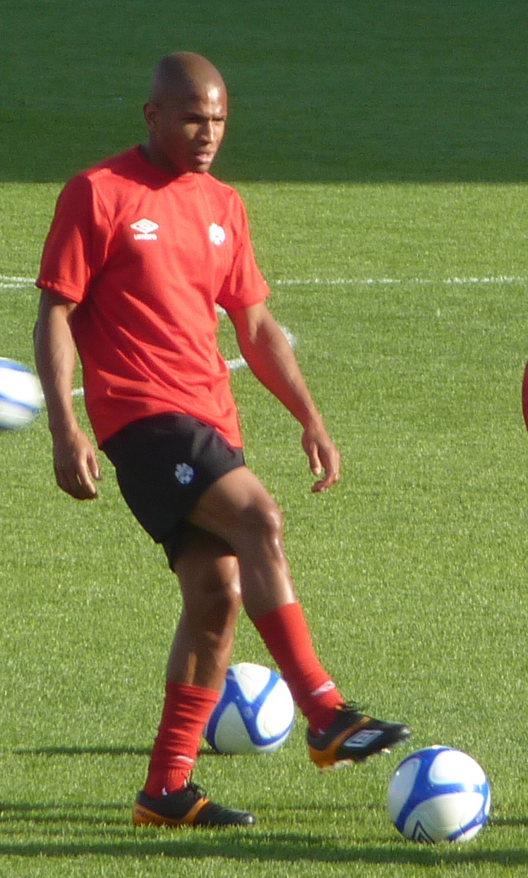 Simeon Jackson warming up pre-Ecuador game